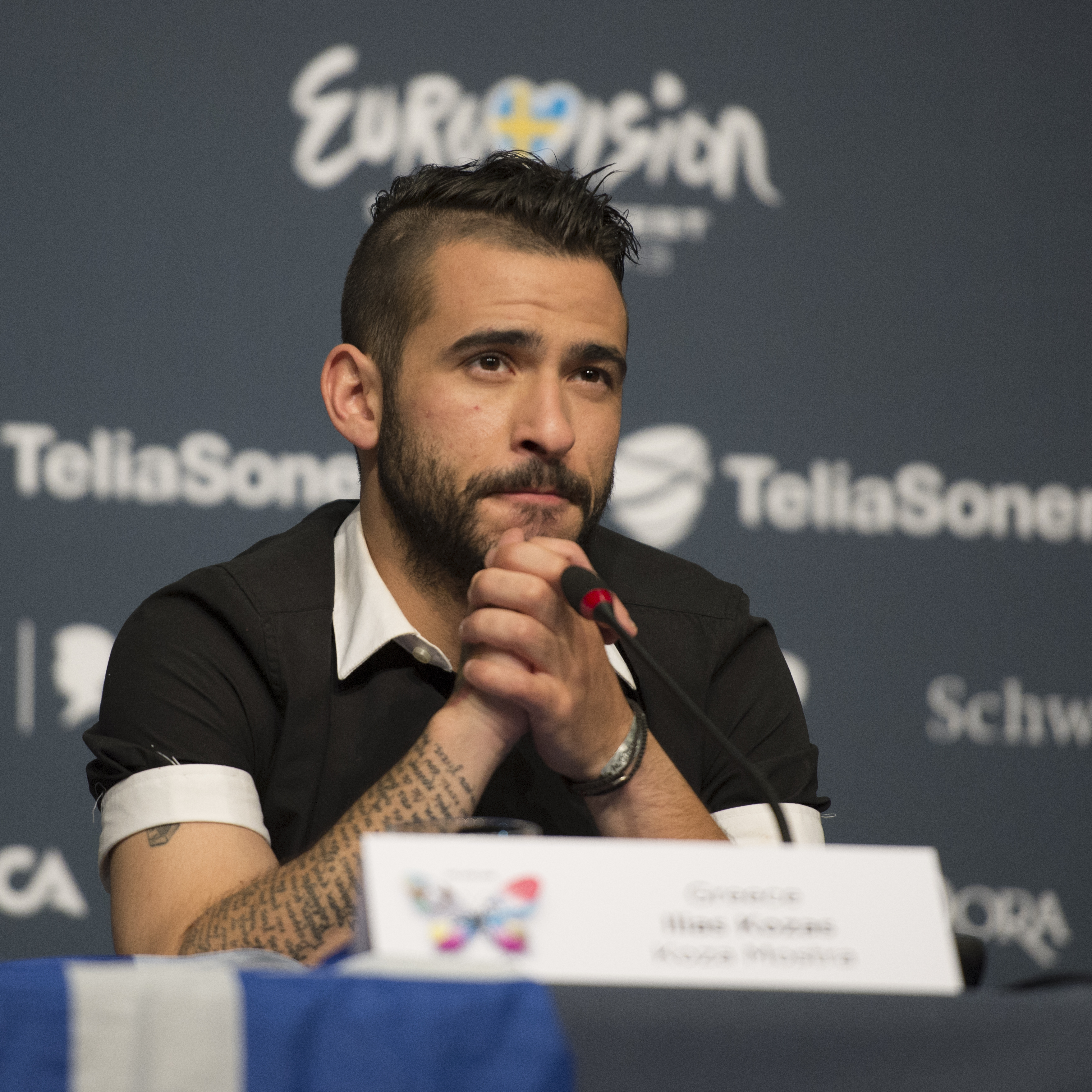 Ilias Kozas from Koza Mostra feat. Agathon Iakovidis at a press conference during the Eurovision Song Contest 2013 in Malmö. (Help translate this text)